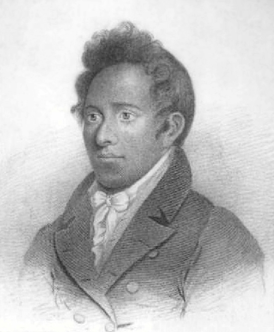 Portrait of Henry Obookiah, undated frontispiece in Memoir of Henry Obookiah (American Tract Society, rev. ed., no date). Courtesy of Eleanor C. Nordyke.